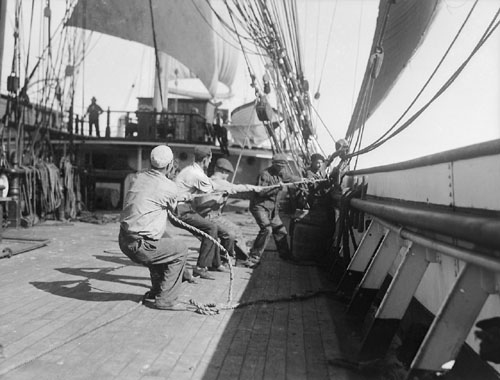 Sailors working onboard the 'Parma'